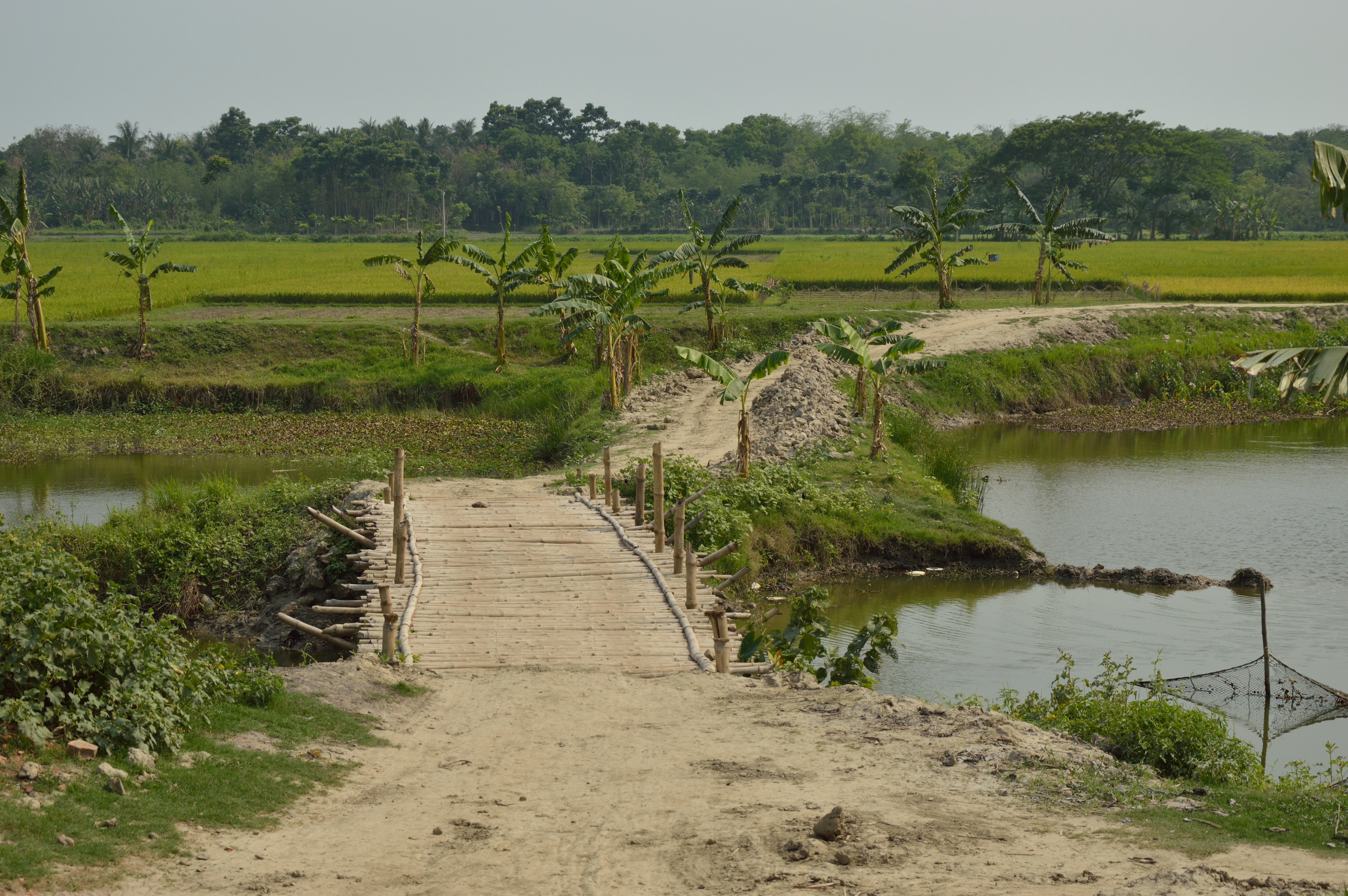 Photographed in North 24 Parganas, West Bengal.